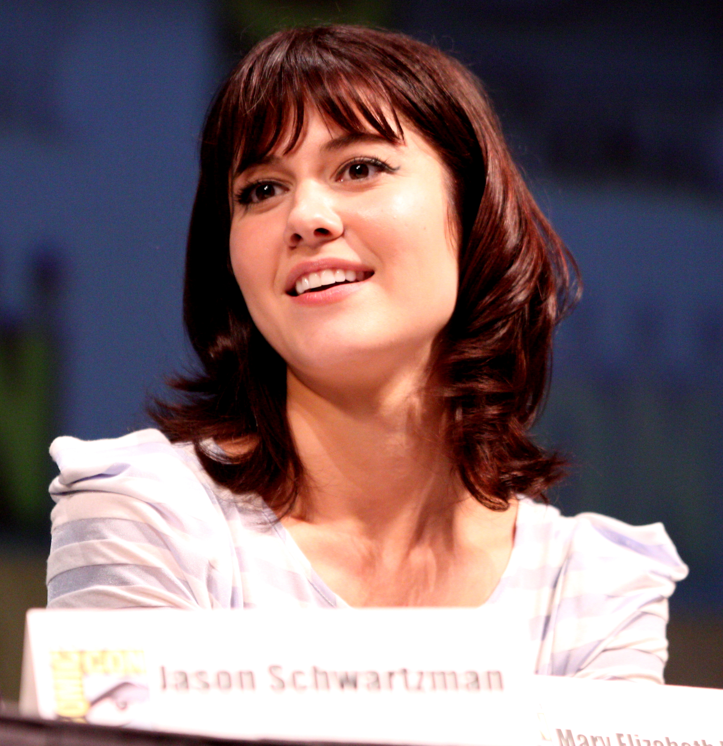 Mary Elizabeth Winstead at the Comic-Con 2010.